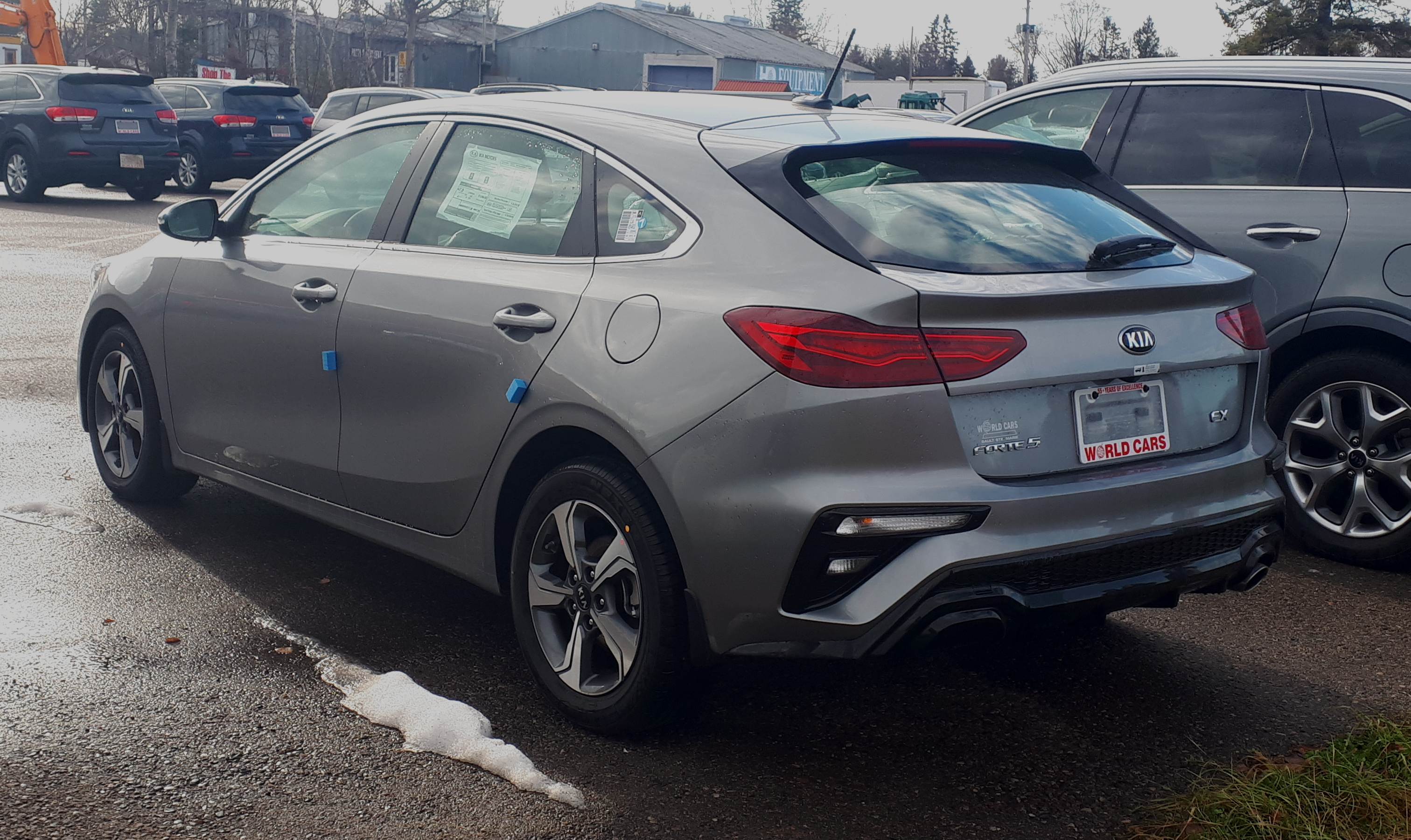 2020 Kia Forte5 EX photographed in Sault Ste. Marie, Ontario, Canada